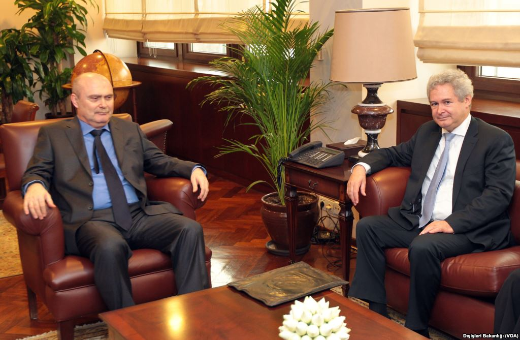 Undersecretary of the Ministry of Foreign Affairs of Turkey, Feridun Sinirlioğlu (L) and Greek Cypriot negotiator Andreas D. Mavroyiannis (R) in Ministry of Foreign Affairs, Ankara, Turkey.